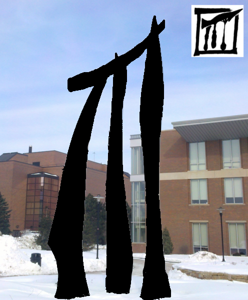 The sculpture Unity (2008), located on the Rochester Institute of Technology (photographed by Jeremiah Parry-Hill 17 November 2015 and placed in the public domain ( and the 'Gracies Dinnertime Theatre' logo (upper right corner), 2000 to 2005. The sculpture has been masked out to comply with rules related to Freedom of Panorama in the United States. It is a coincidence that the masking increases the similarities between the 'Gracies Dinnertime Theatre' logo and the Unity sculpture.